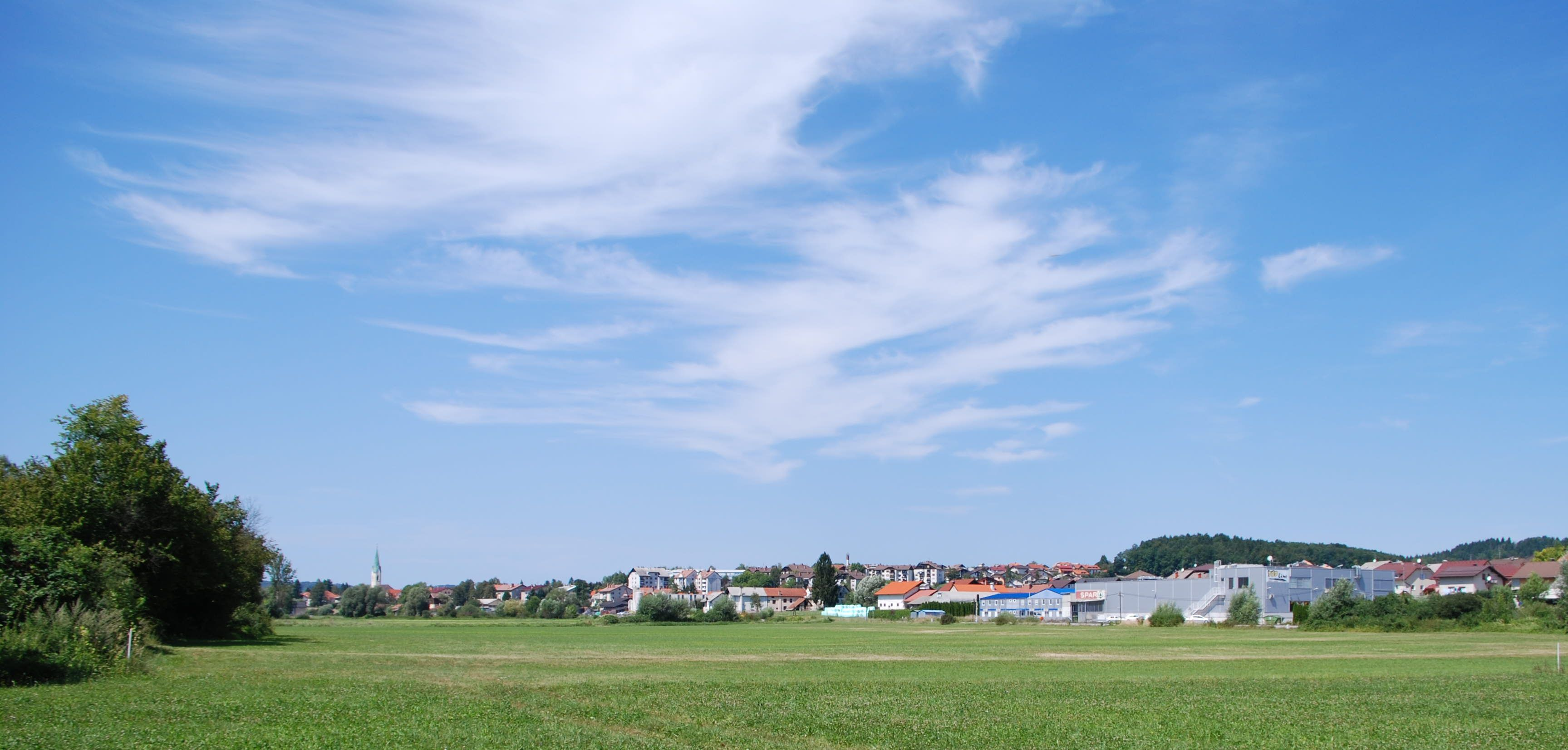 Cirrus clouds over the town of Trebnje, Slovenia. I was standing next to the footbridge over the Temenica River at Mercator shopping centre.